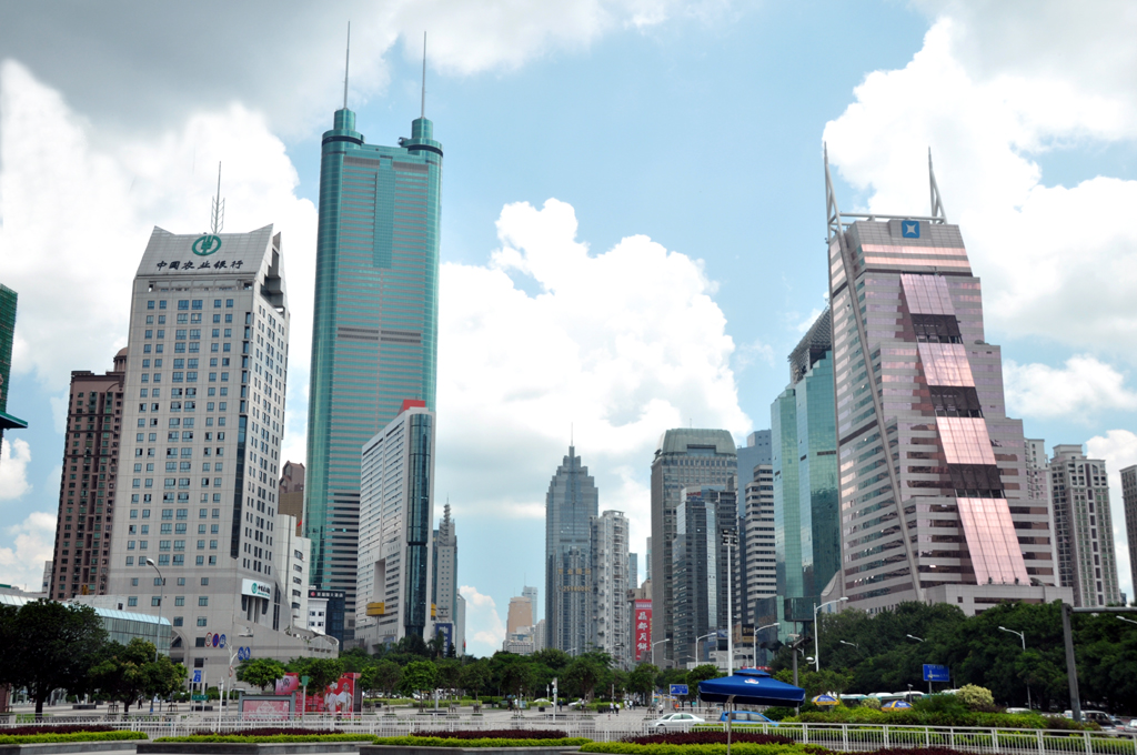 Photo taken in Shenzhen near the landmark commercial building.